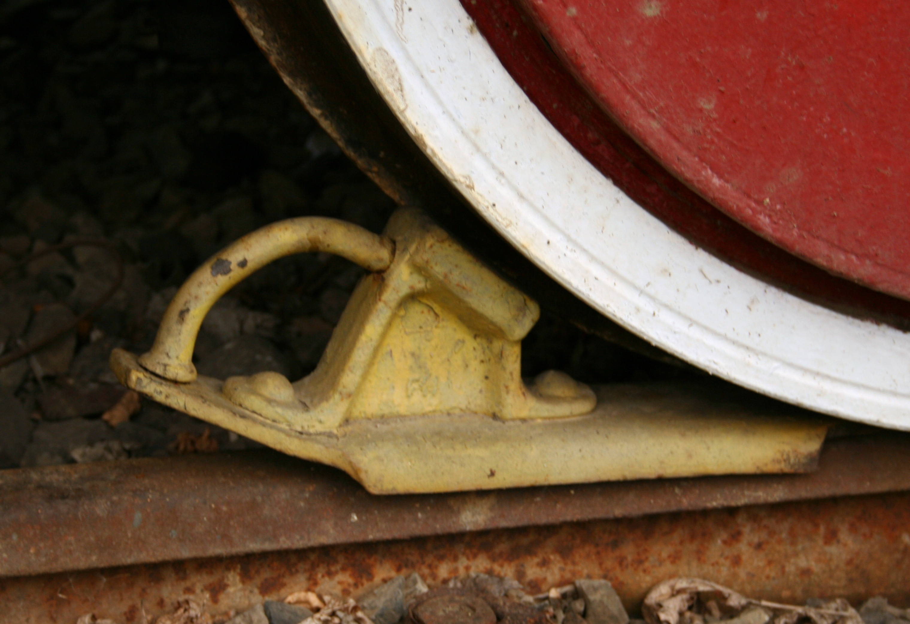 Chabówka Rolling-Stock Heritage Park, Poland.